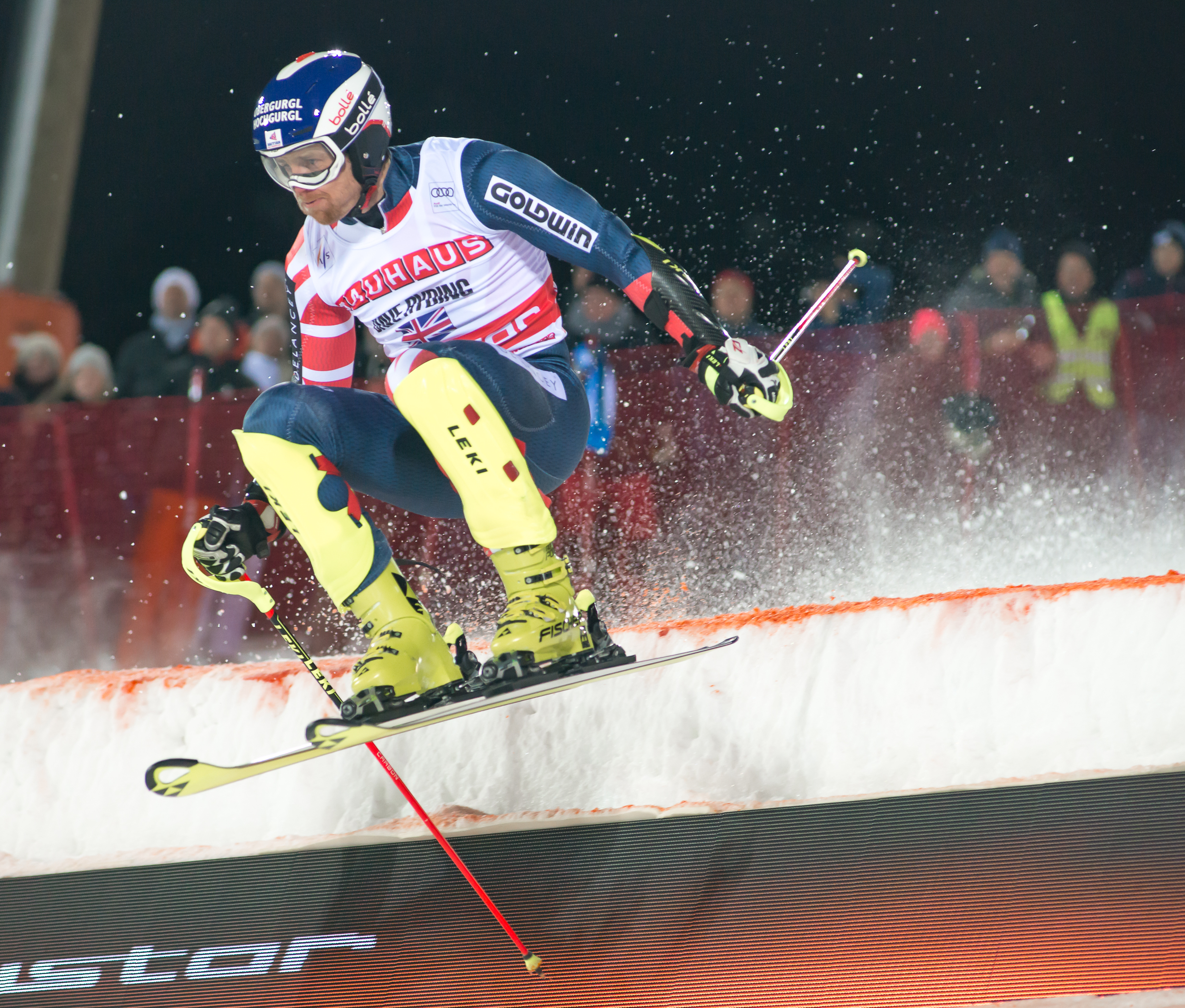 Dave Ryding in action Photo by Roland Osbeck